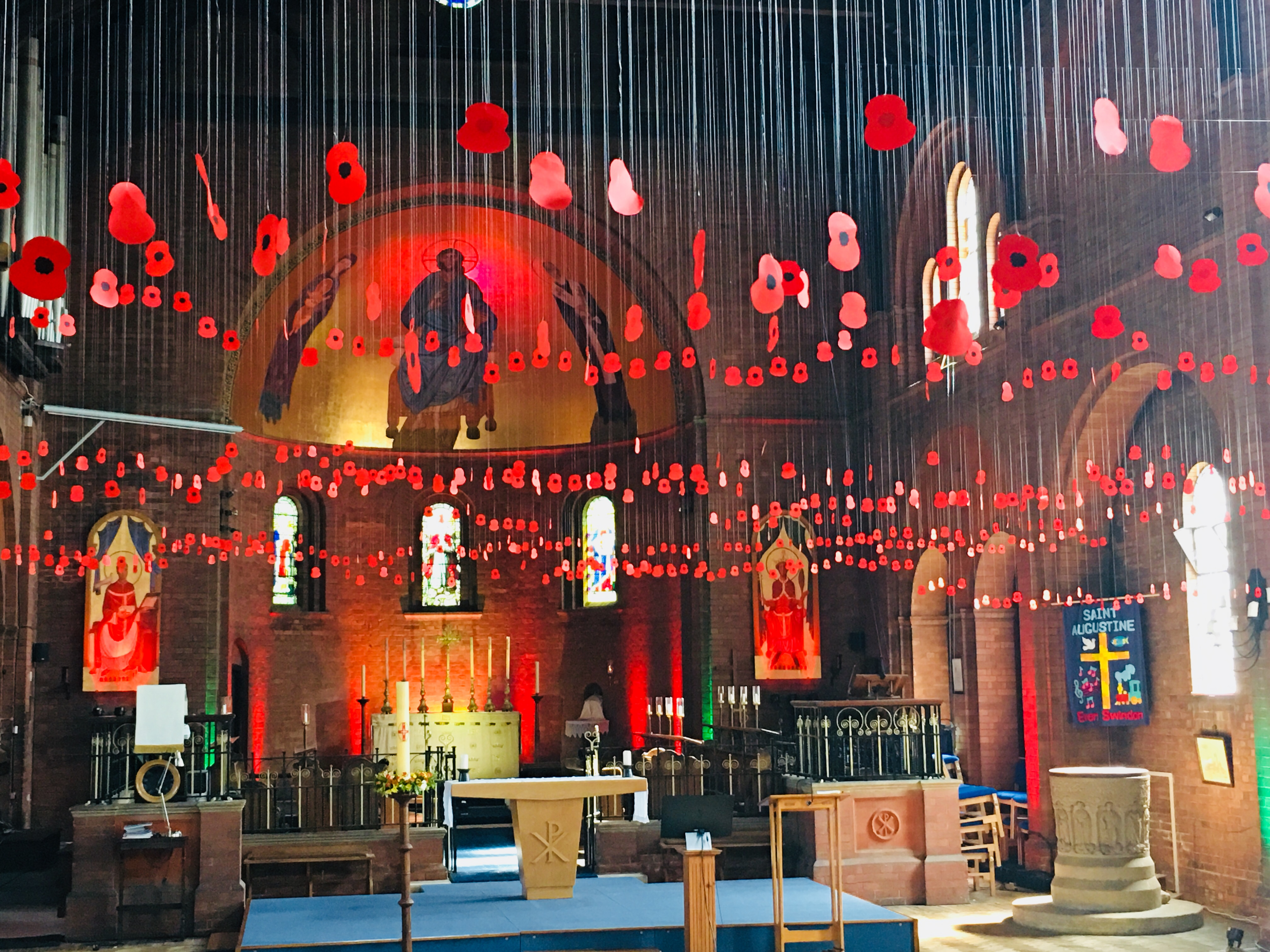 Poppies hanging through the church to commemorate the 100th anniversary of the end of WW1